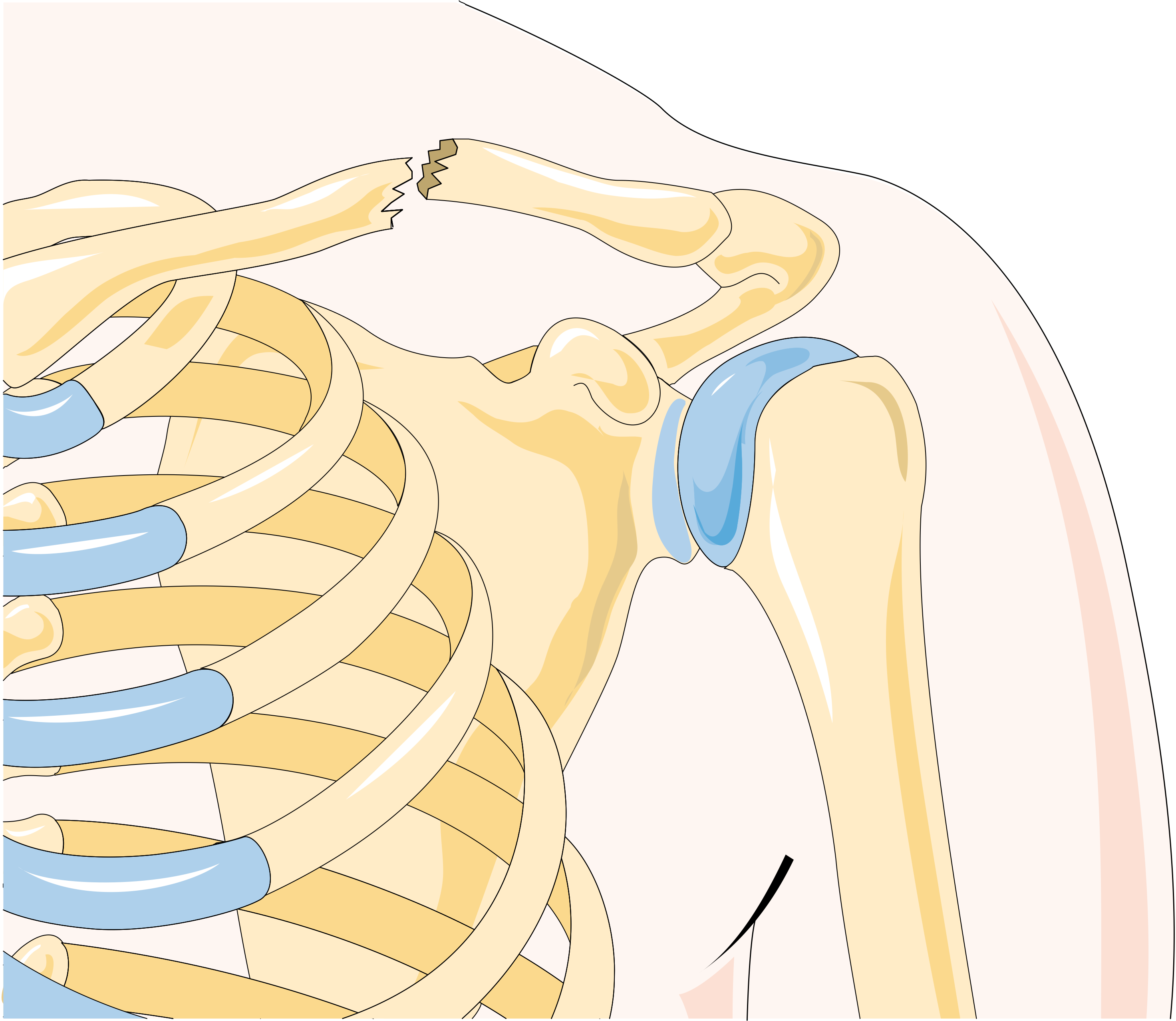 Bone fractures - Collarbone fracture - Clavicle fracture